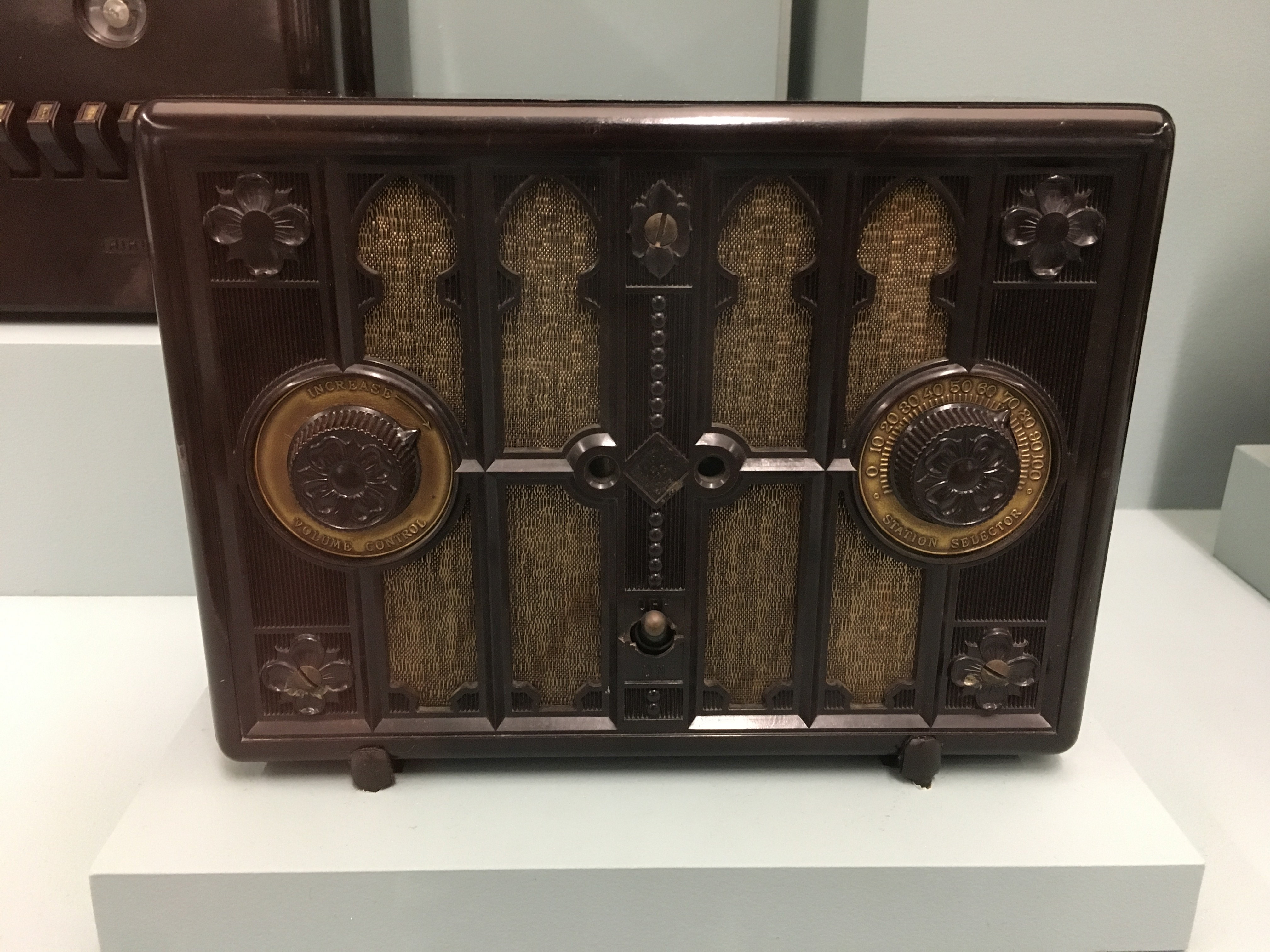 International Radio Corporation Kadette Model H (1932) radio. Manufactured by International Radio Corporation in Ann Arbor, Michigan. Bakelite, brass, fabric. On display at SFO Museum "On The Radio" exhibition in 2018.